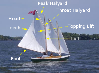 Illustration of the edges of a gaff-rigged sail, and the running rigging that hoists the sail. Photo is of the schooner Shrike near Kingston, ON in September 2005.